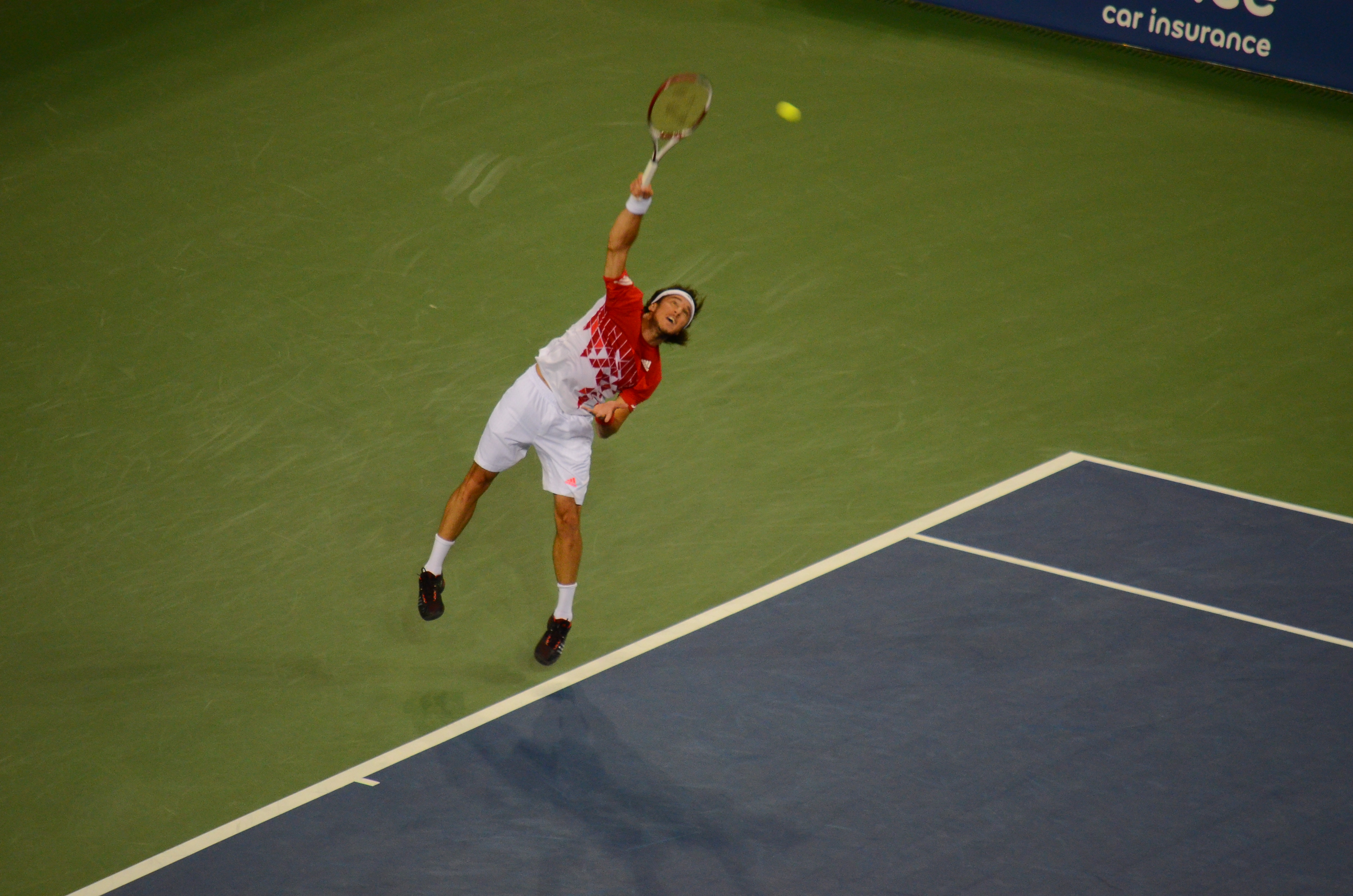 Juan Monaco hitting a serve at the 2011 US Open